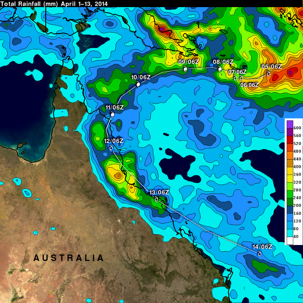 This TRMM satellite rainfall map covers Tropical Cyclone Ita's life from April 1-14. Highest isolated rainfall was estimated around 400 mm/15.7 inches west of both Ingham and Townsville, Queensland. Ita's locations at 0600 UTC are shown overlaid in white.